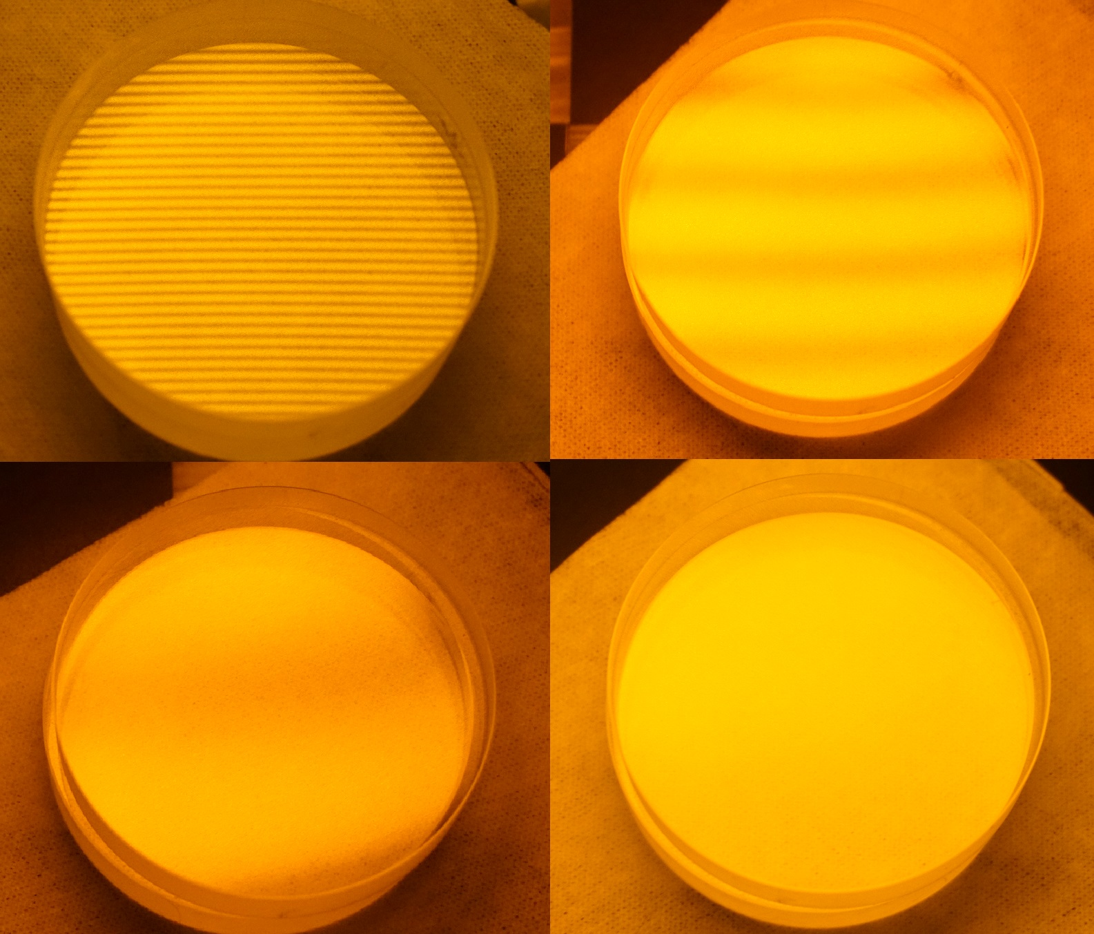 Four photos showing an optical flat test as wringing progresses, using 589 nanometer laser light. The surfaces are perfectly flat relative to each other, to a flatness of λ/10, which equates to a normal deviation of 58.9 nanometers. The fringes begin as thin, parallel lines which widen as the air is slowly expelled from between the surfaces, until only a single fringe remains. At λ/10 the surfaces are not quite flat enough to wring very tightly.